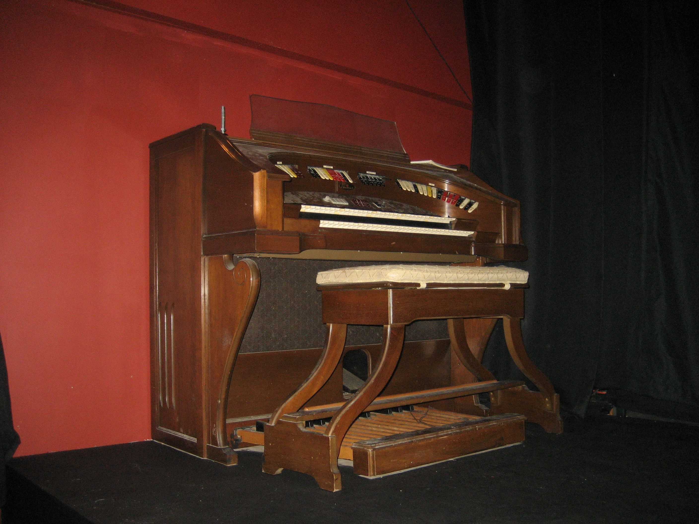 New Orleans. Organ beside the stage at the Prytania Theater.